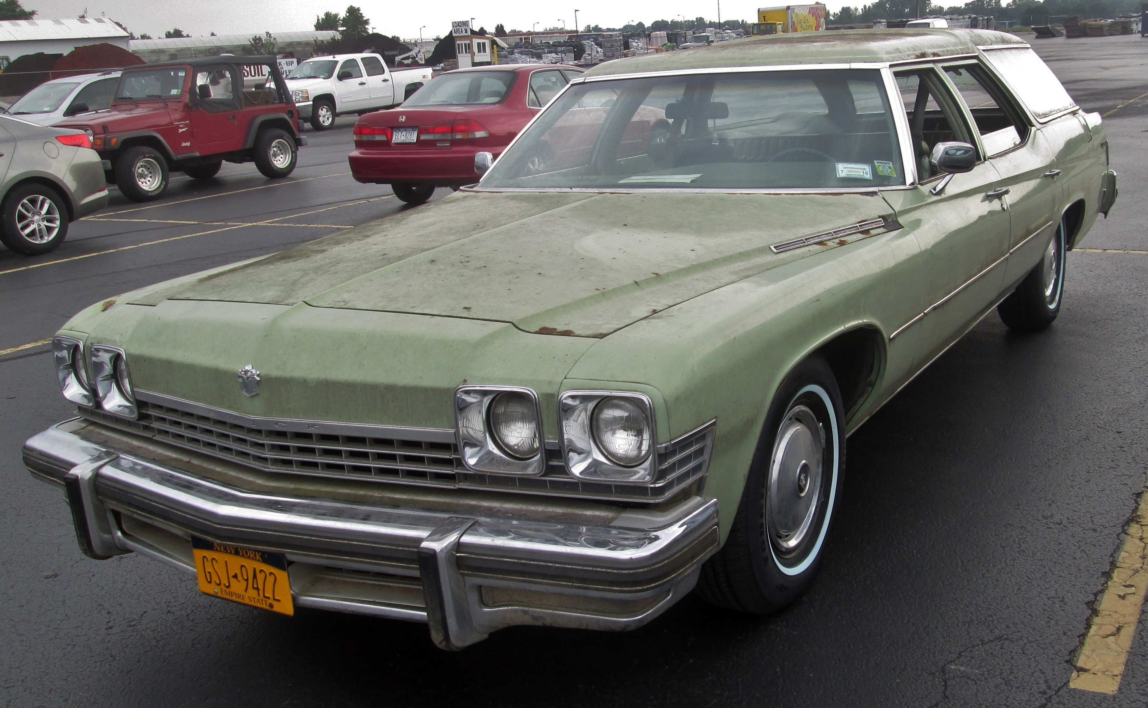 A 1974 Buick Estate photographed in Rochester, NY